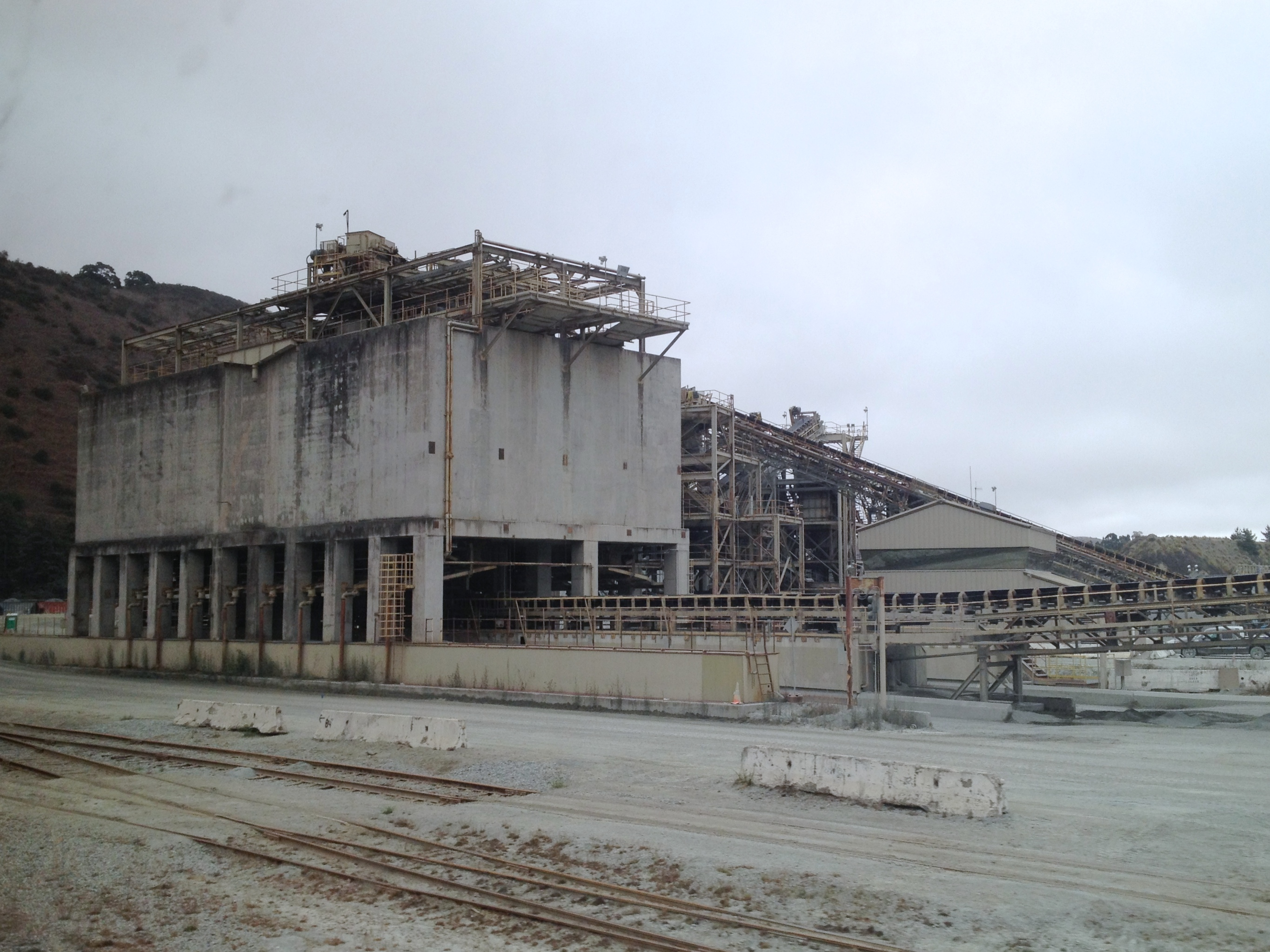 Graniterock quarry in Aromas, California.